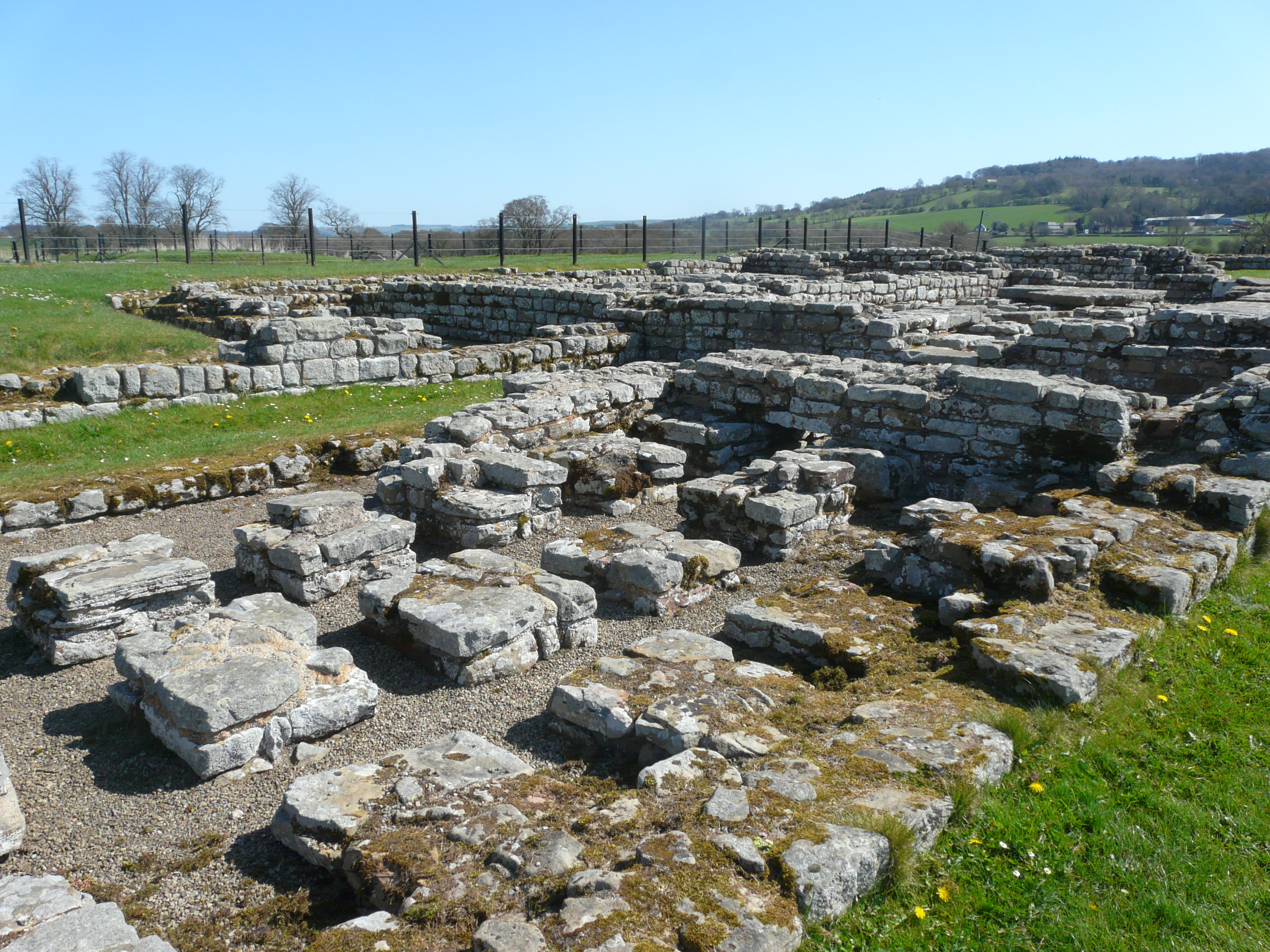 The Roman fort, vicus, bridge abutments and associated remains of Hadrian's Wall at Chesters in wall mile 27 Wikidata has entry Q17650519 with data related to this item.